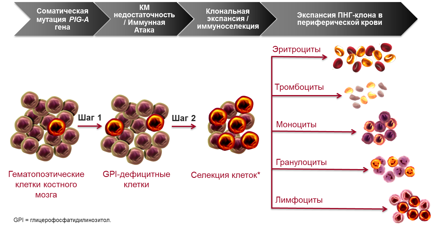 GPI stem cell deficit evolution pathway